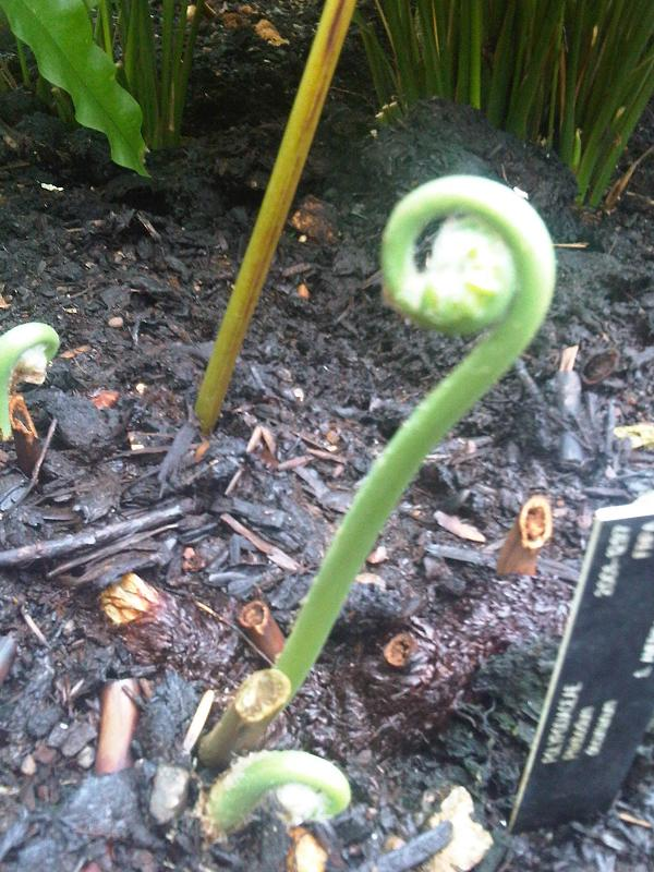 Young Phlebodium decumanum at Kew Gardens in London, England.